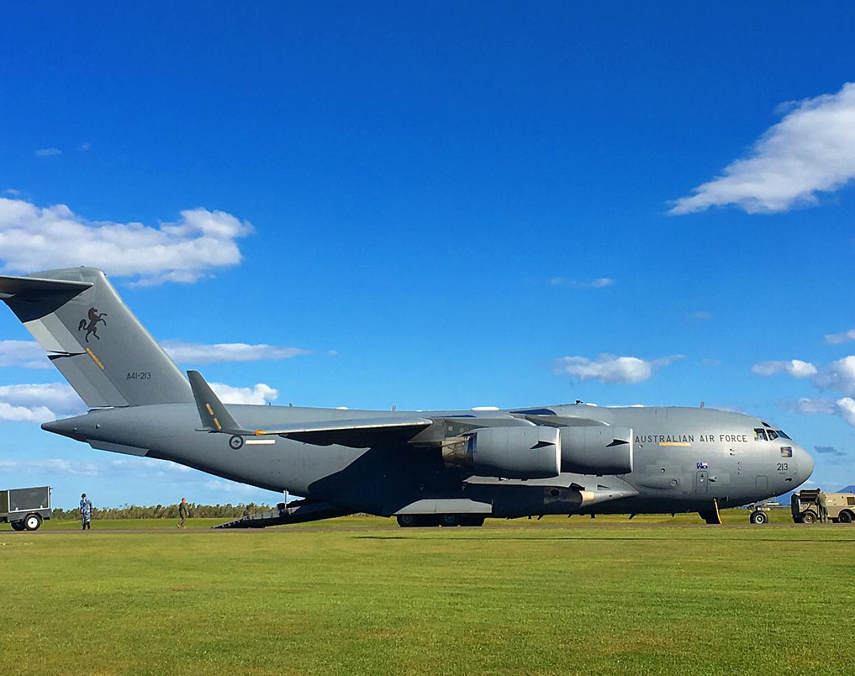 A photo of a RAAF Boeing C-17 Globemaster III at Proserpine Airport in Queensland, Australia.